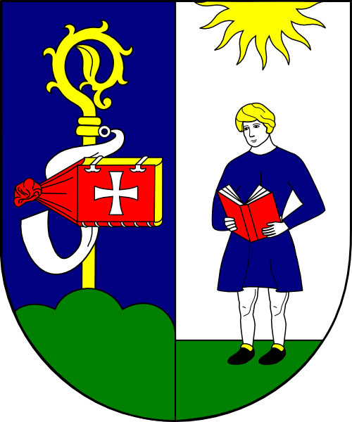 Coat of arms (shield only) of Amand Oppitz, abbot of Schottenstift (Scottish Abbey), Vienna (1913 - 1930). Based on ZELENKA, Aleš: Die Wappen der wiener Schottenäbte, p. 31 and on his exlibris by Ernst Krahl